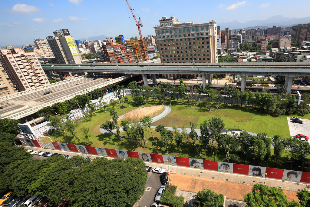 "Cicada" bamboo pavilion in Taipei by Marco Casagrande, 2011.